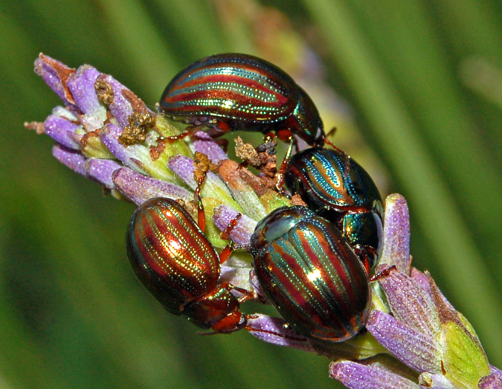 Chrysolina americana. S. Agata Fossili, Alessandria, Italy